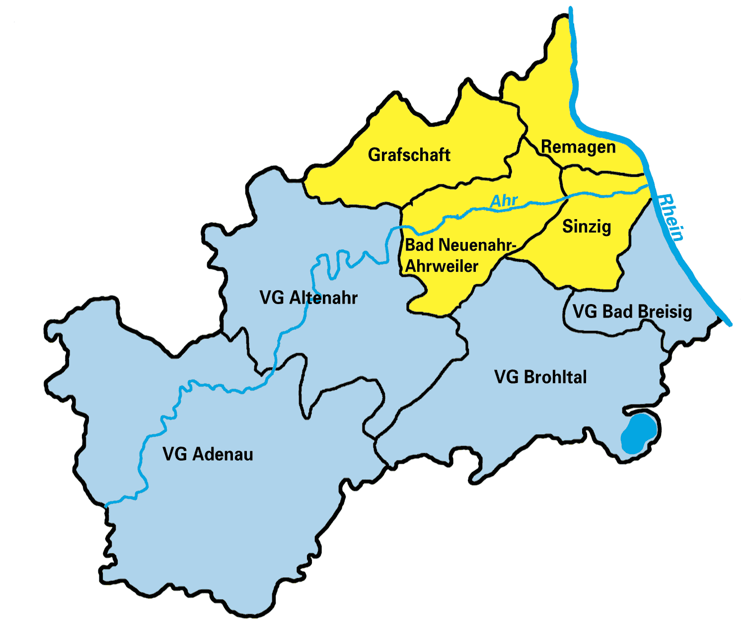 Map of the rural district Landkreis Ahrweiler, Rhineland-Palatinate with collective municipalities (Verbandsgemeinden)